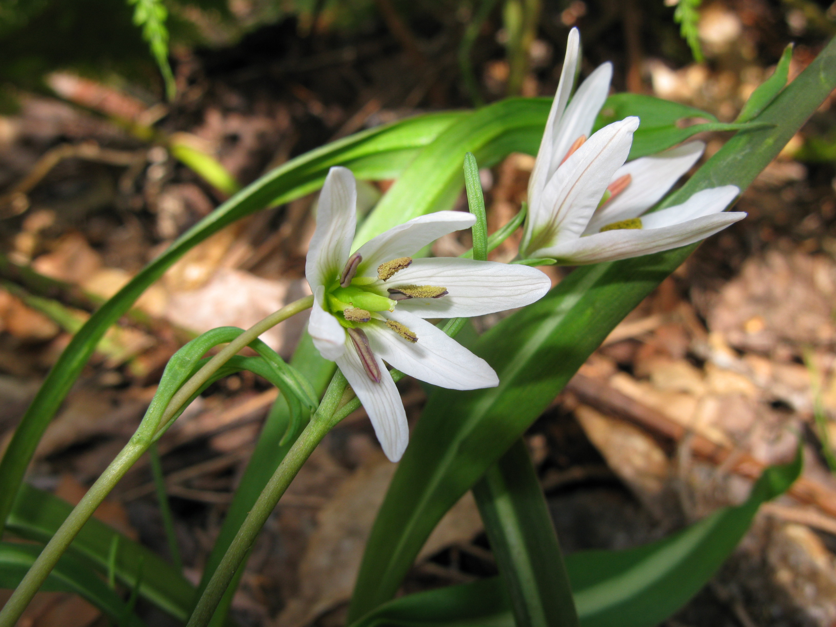 Amana latifolia, Fukushima pref., Japan